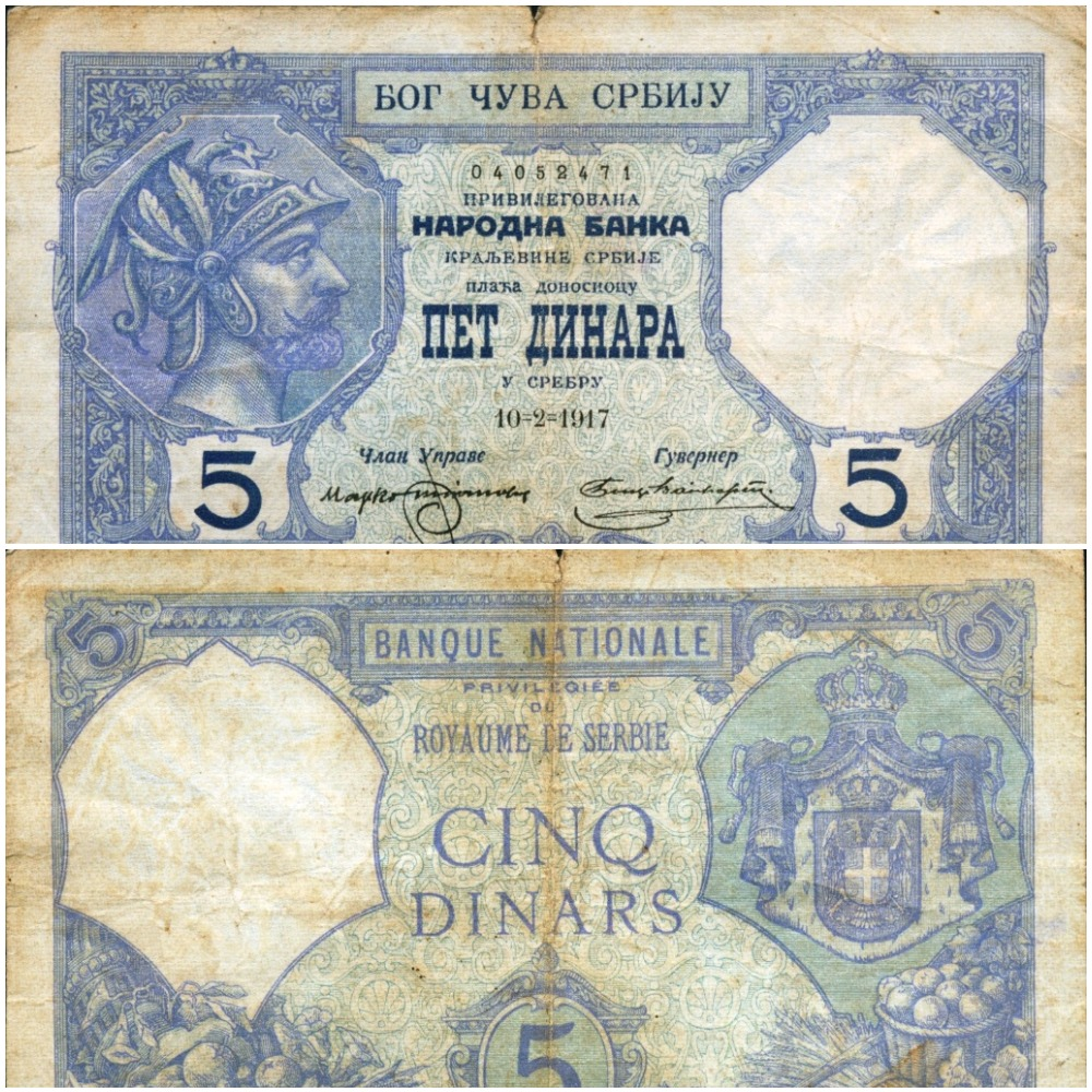 Obverse and reverse of paper money (5 dinar) from the Kingdom of Serbia from World War I (1917), Museum in Smederevo.